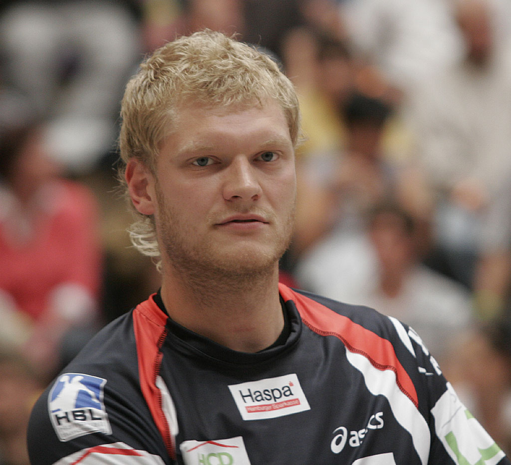 Johannes Bitter, the German Goalkeeper from HSV Hamburg, during the Schlecker Cup 2007 in Ehingen (Germany)